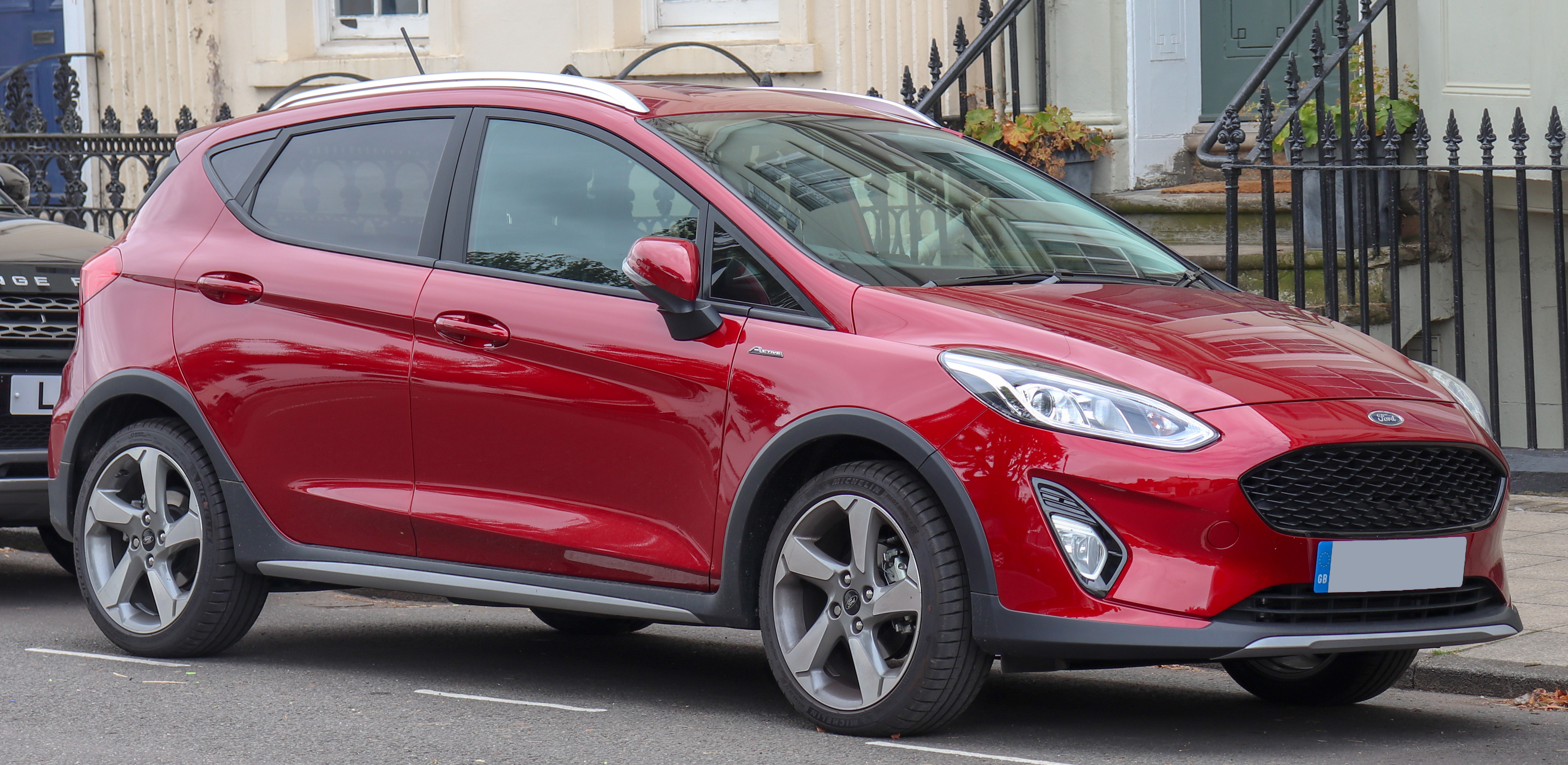 2018 Ford Fiesta Active X Turbo 1.0 Front Taken in Leamington Spa